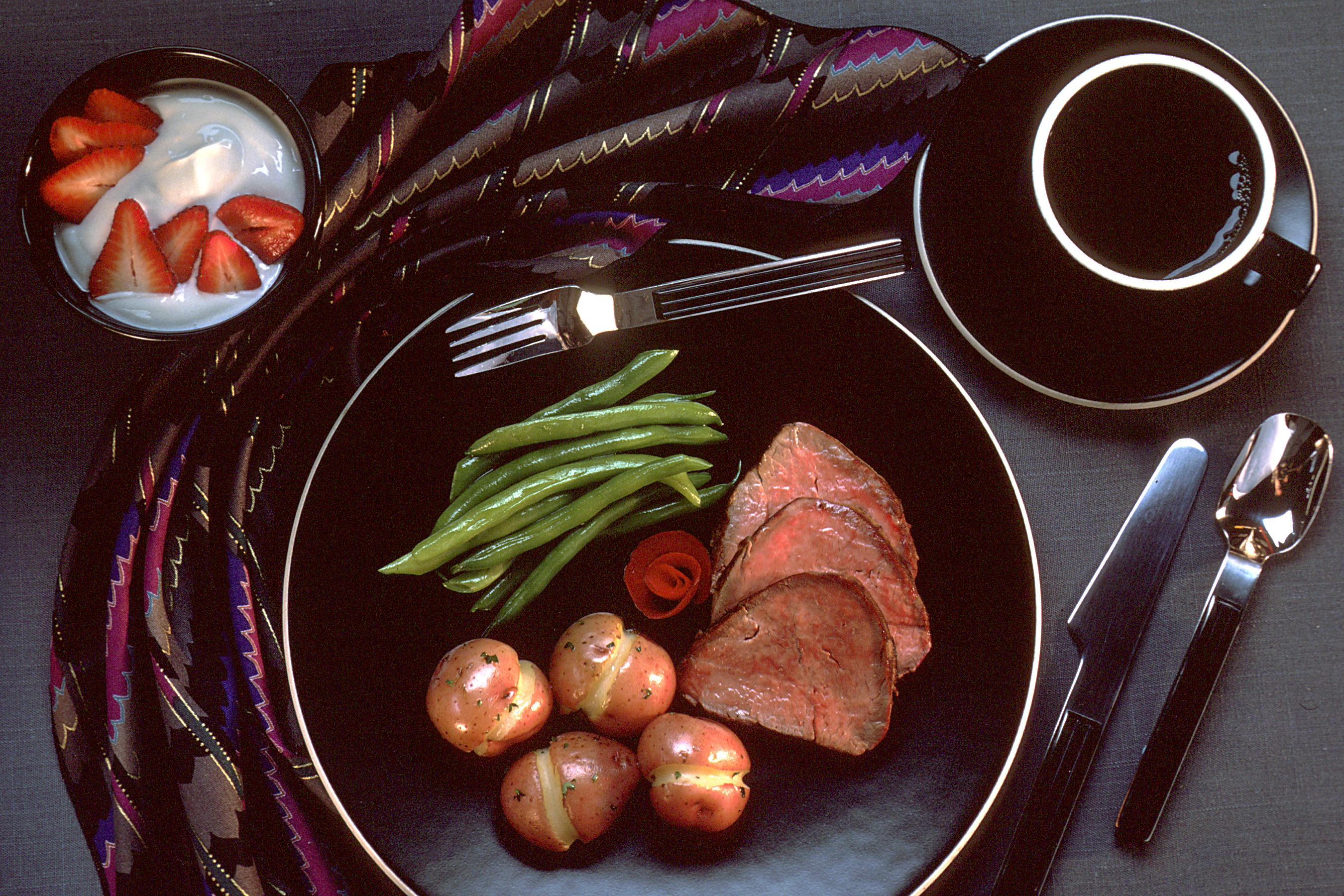 A dinner is set up on black, gold-rimmed dishes on a black tabletop. There is a mug, a bowl of cut strawberries, and a plate full of green beans, small potatoes and roast beef. A dark multicolored napkin with gold thread is curved around the plate.